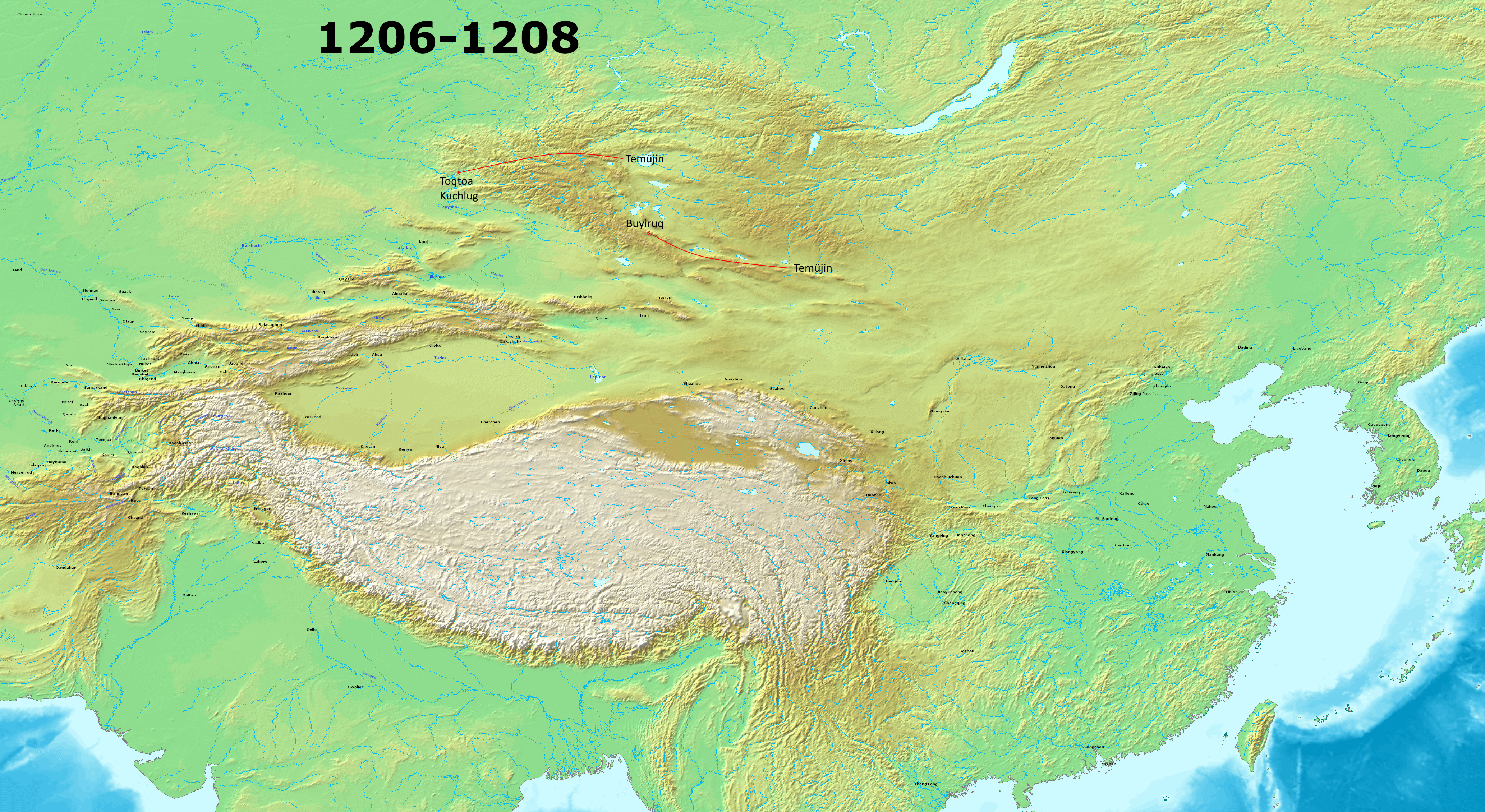 1206-1208 Mongol War